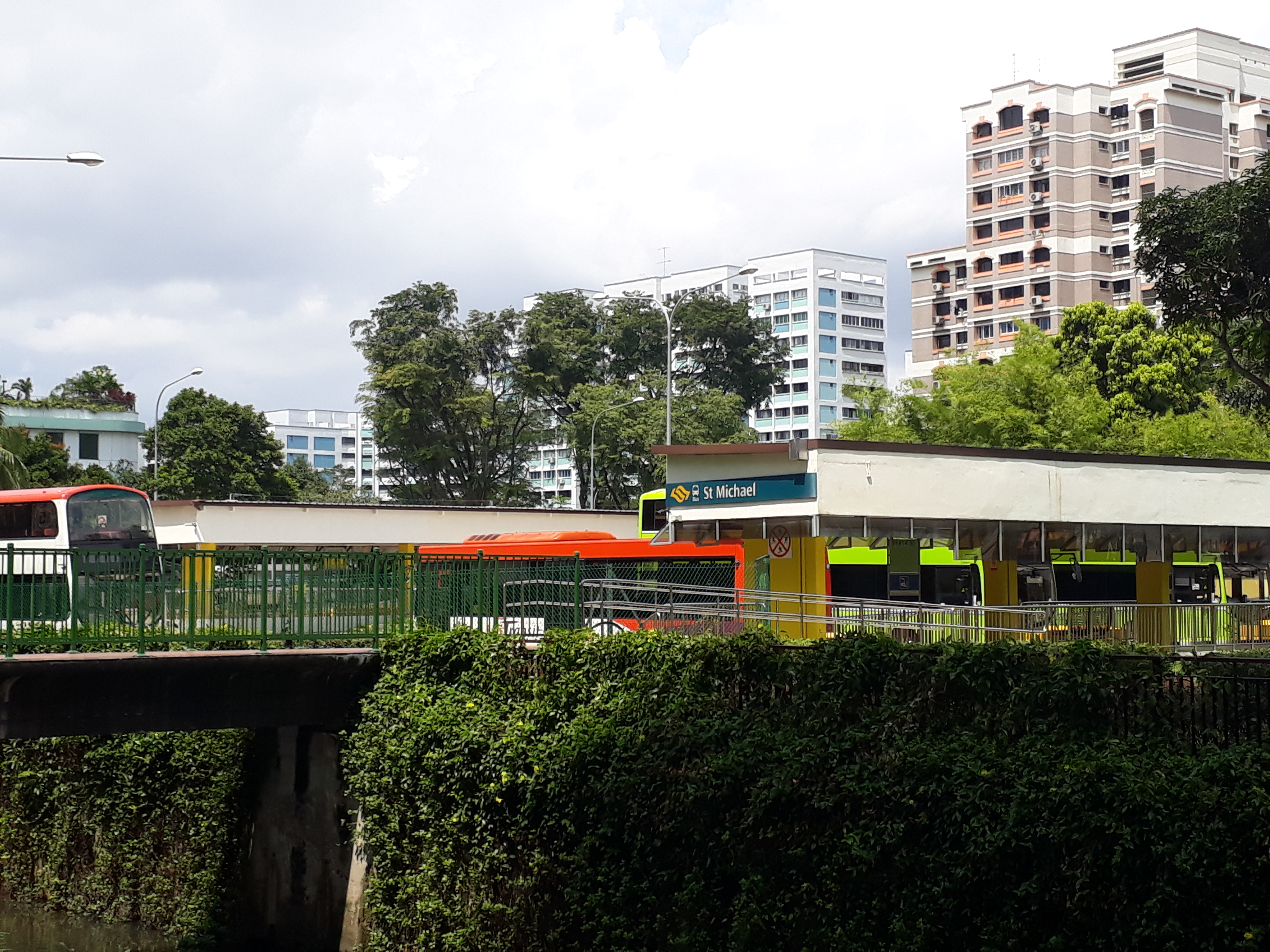 Bus Terminal